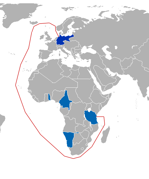 Journey of the auxiliary Ship Rubens (Blockade runner A) from Wilhelmshaven to Manza Bay in German East Africa (February 1915 - April 1915).